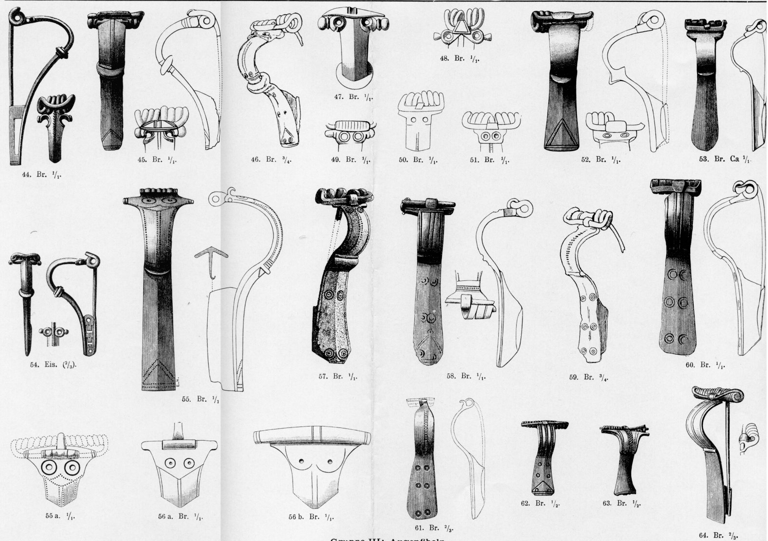 Almgrens brooches, (anonimowy rysownik z 1897)